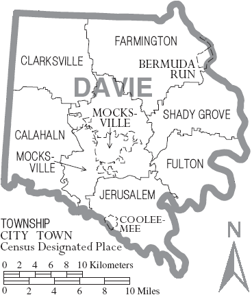 Map of Davie County, North Carolina, United States with township and municipal boundaries